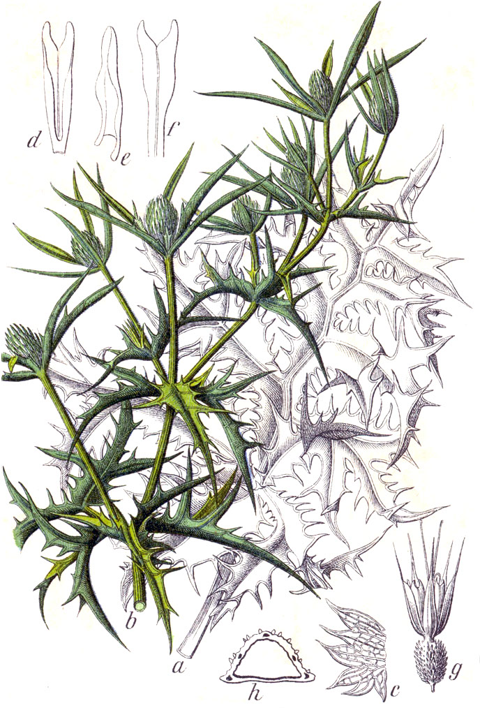 Eryngium campestre L. Original Caption Eigentliche Mannstreu, Eryngium campestre